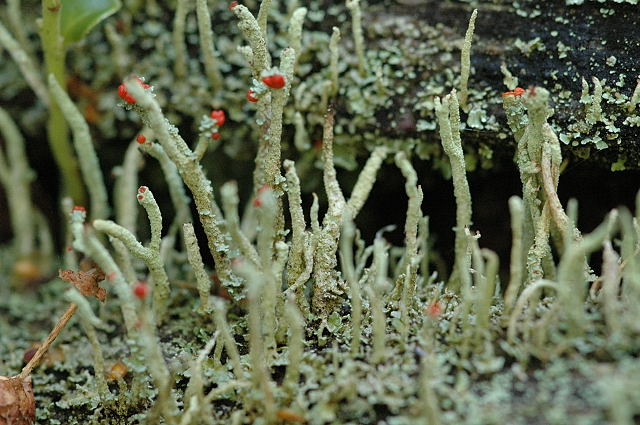 Cladonia floerkeana from Commanster, Belgium. If you think this is a different taxon, please contact James Lindsey.